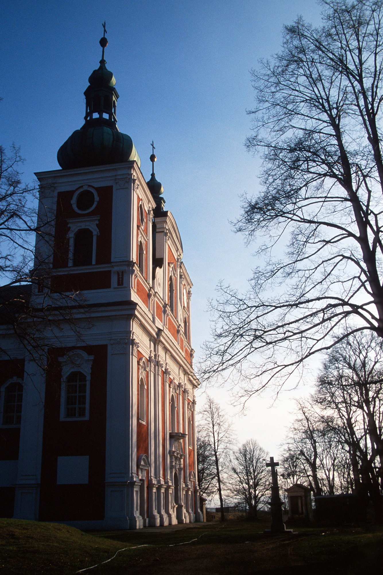 Pilgrimage church of Our Lady of Sorrow on the Cvilín hill at Krnov, built in 1722–1727 in Baroque style.